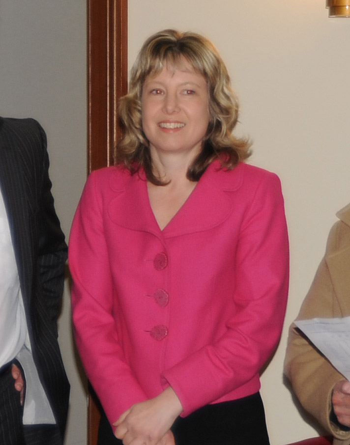 Vanessa Goodwin at official declaration of the polls at Legislative Council, Hobart